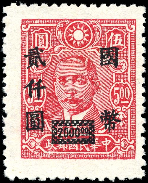 China 2000-dollar overprint on 5-dollar value, 1946